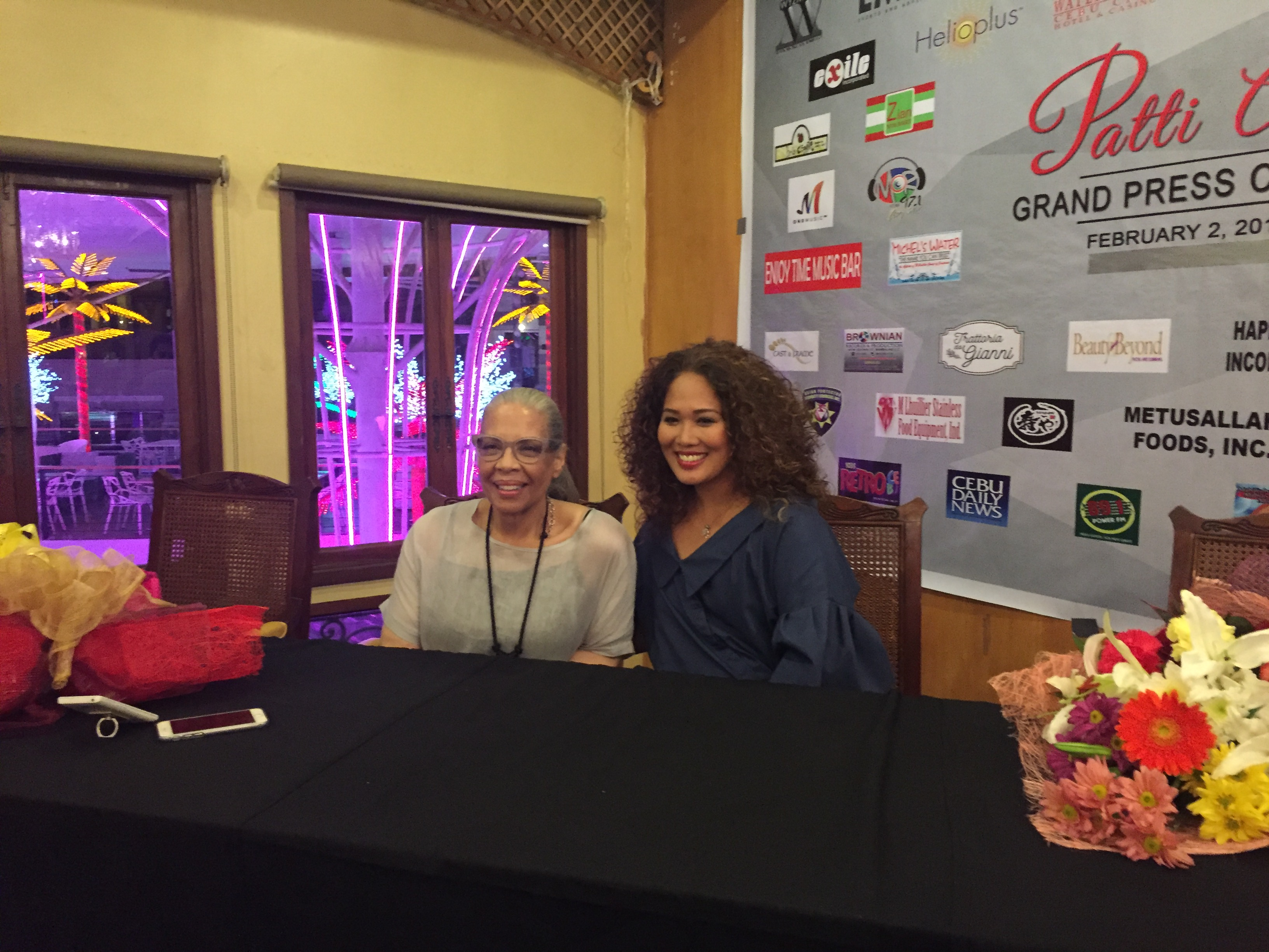 Photo of Patti Austin and Anna Fegi at a press conference in Cebu in 2017